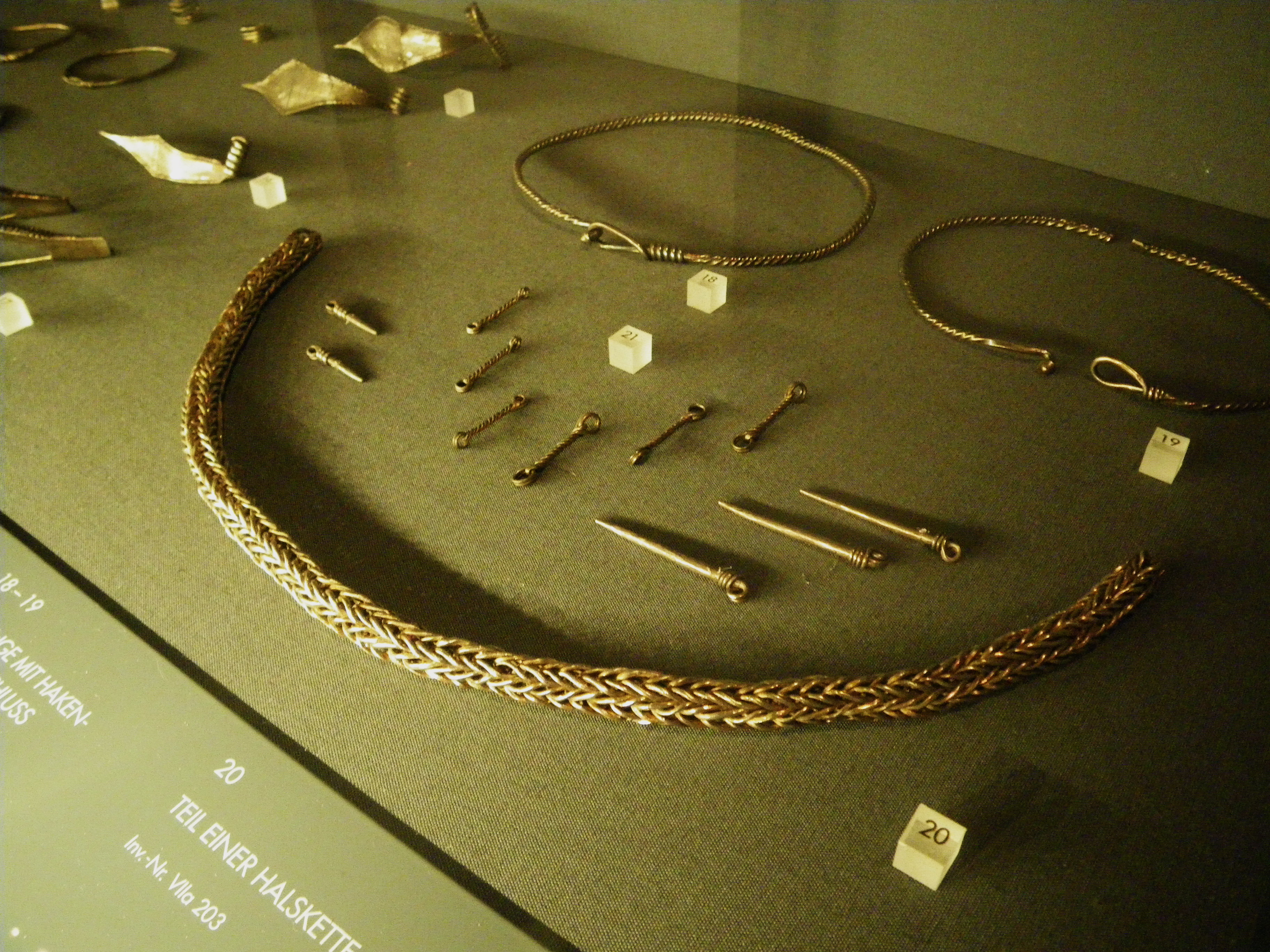 Kunsthistorisches Museum Dacian Gold